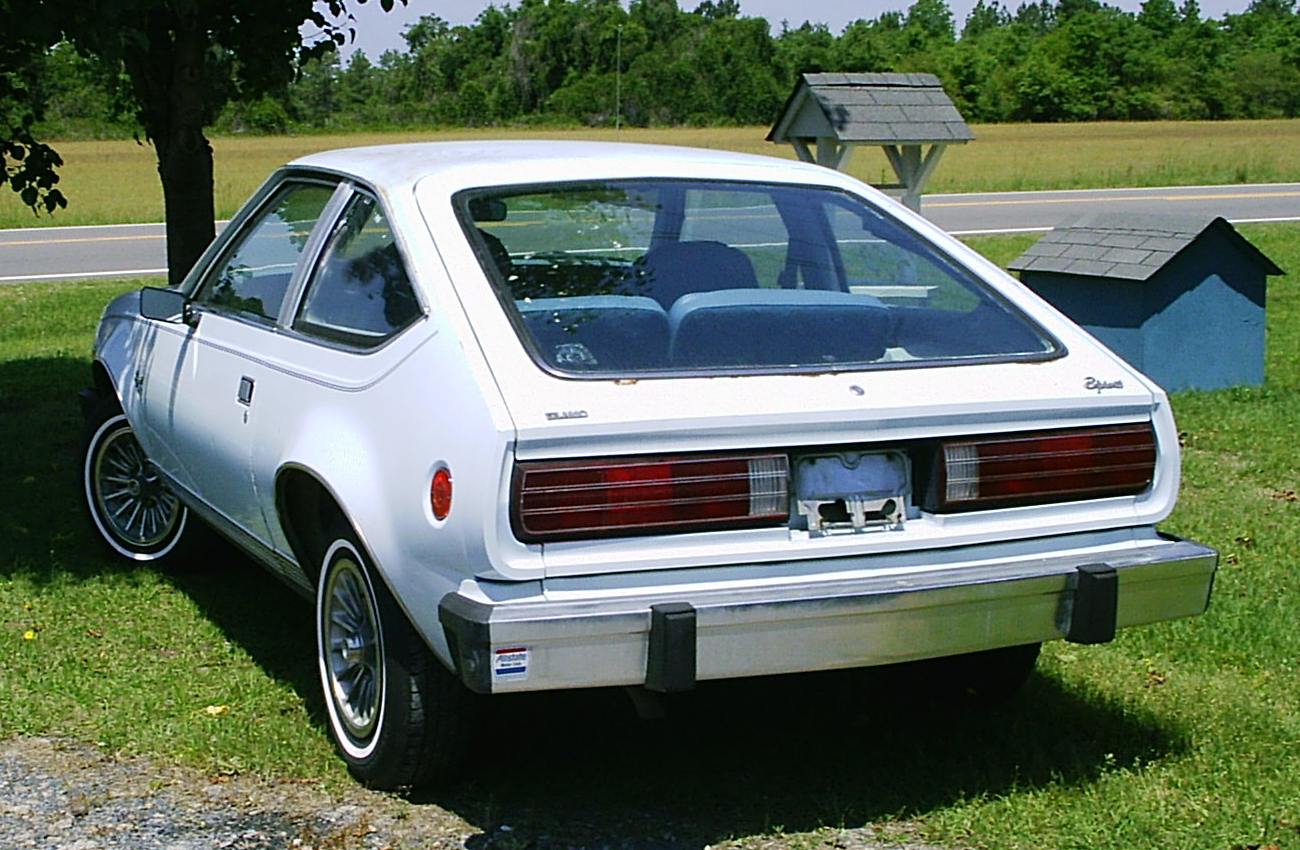 1979 Spirit two-door subcompact liftback made by American Motors (AMC). This D/L model is finished in light blue (Cameo Blue, paint code 0C)